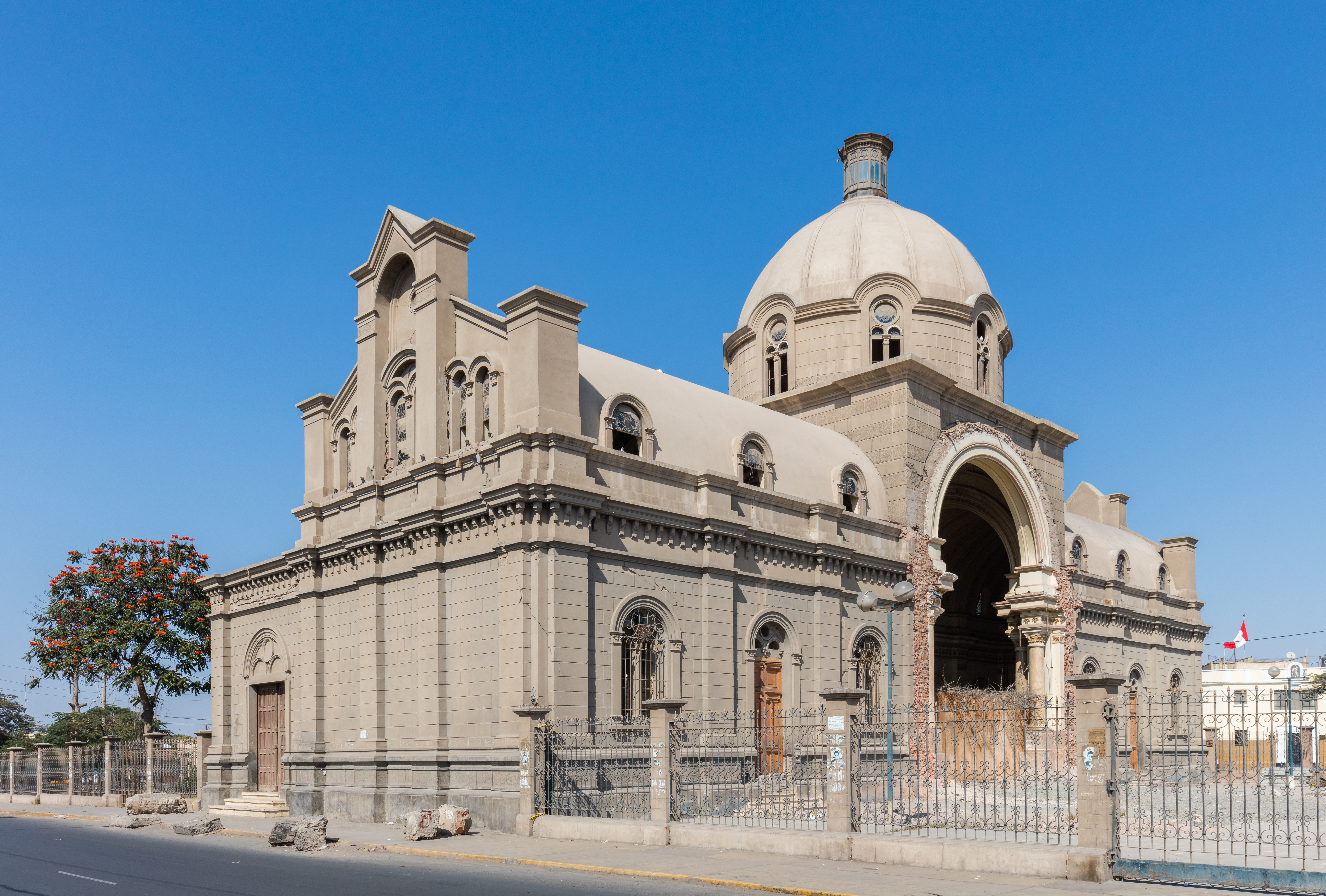 Templo del Señor de Luren, Ica, Perú